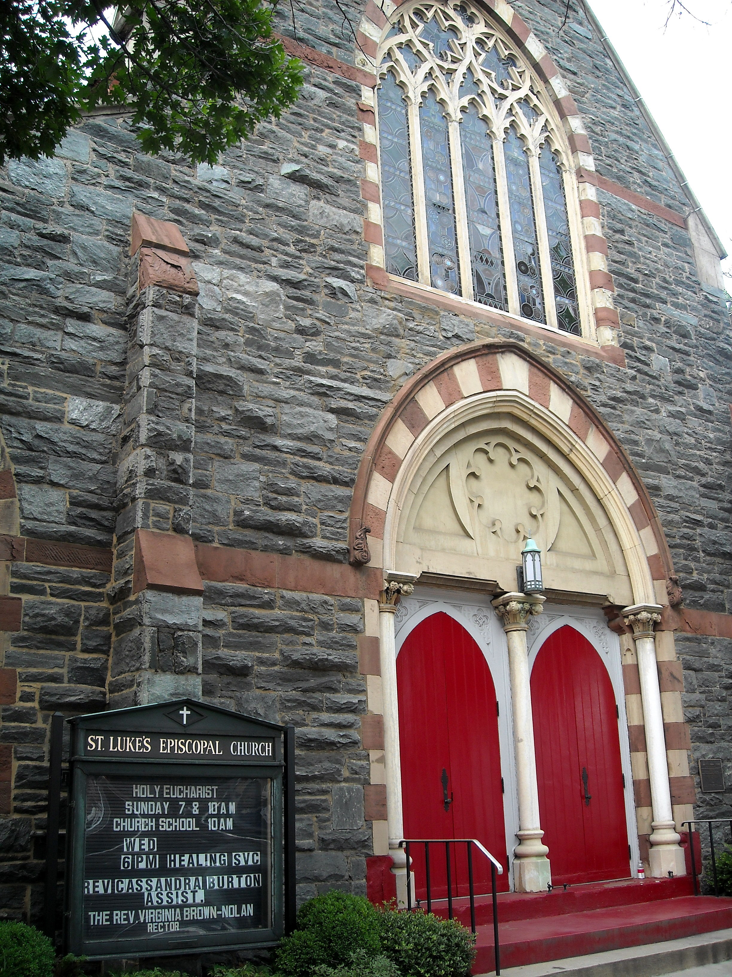 St. Luke's Episcopal Church at 1514 15th Street, NW in Washington, D.C. The church is a National Historic Landmark.